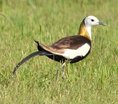 Hydrophasianus chirurgus